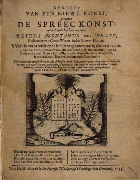 Title page of the book "Bericht van een nieuwe konst, genaemt Spreeckonst" by Petrus Montanus van Delft (Delff, 1635)